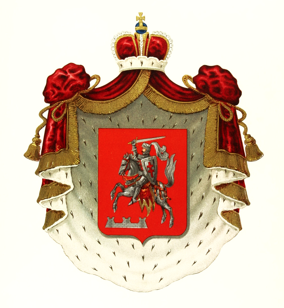 Coat of Arms of family Czartoryski